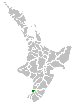 Location of Kapiti Coast District.